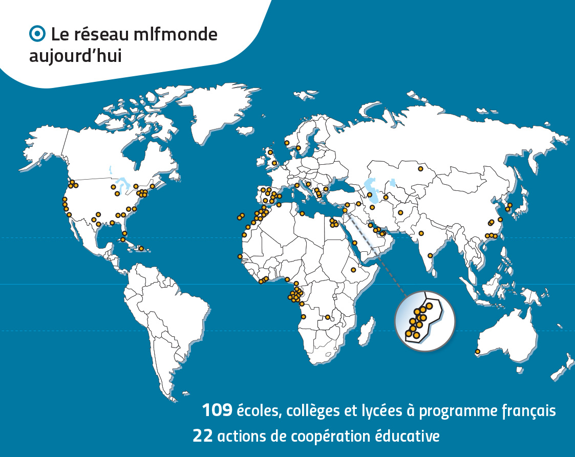 Mission laïque française schools network map in 2017.